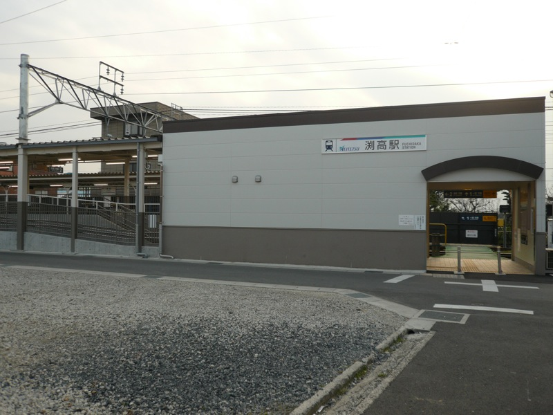 Huchidaka-station East exit.